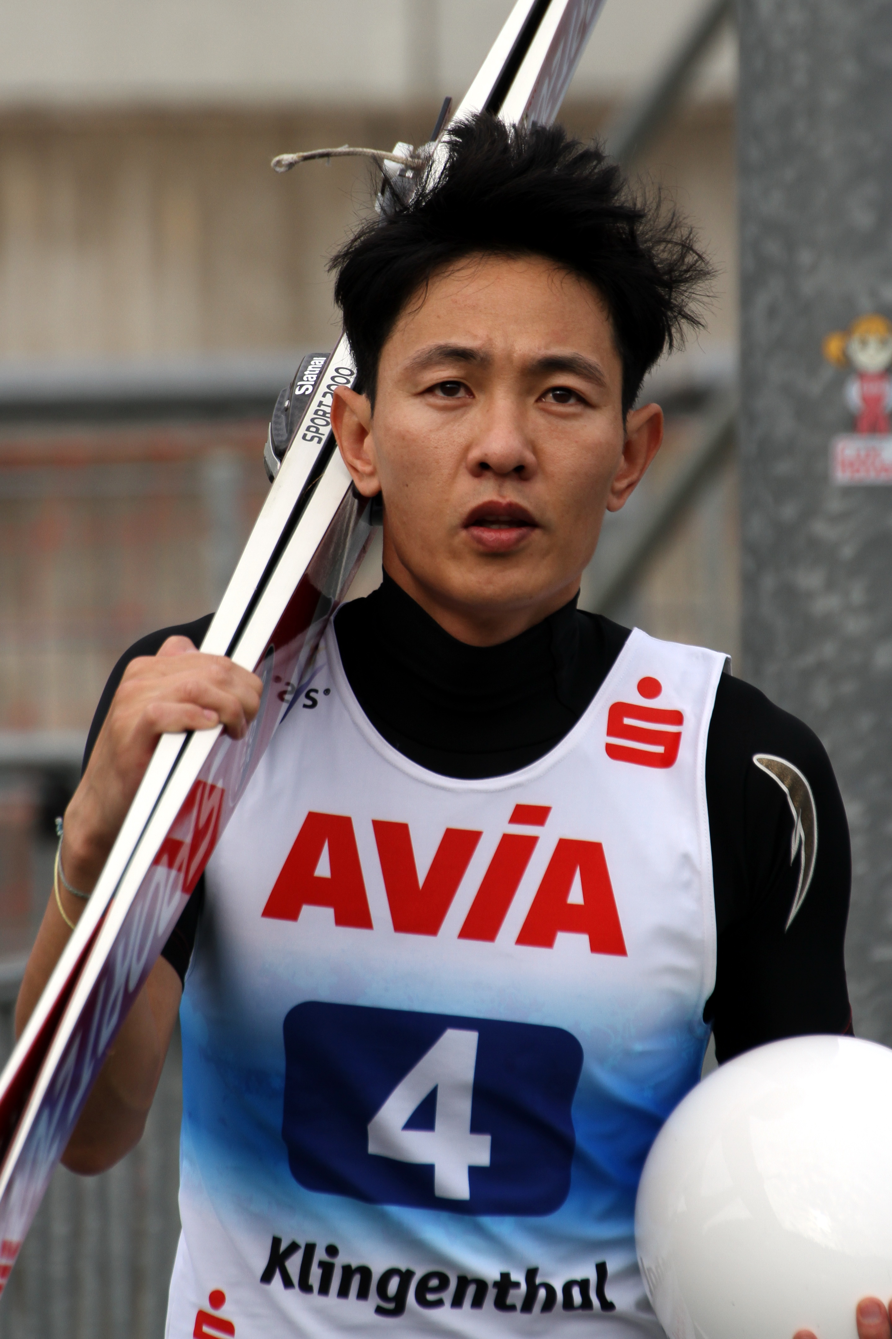 FIS Ski Jumping Summer Continental Cup Klingenthal 2017 Kim Hyun-ki